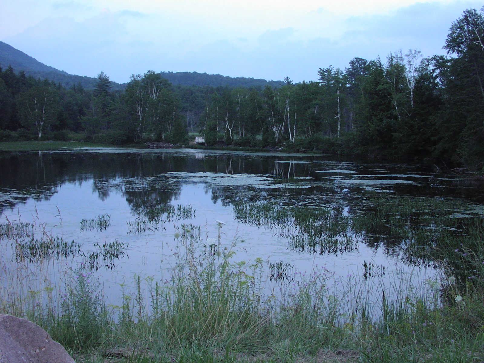 Dan Carmichael Tupper Lake, NY